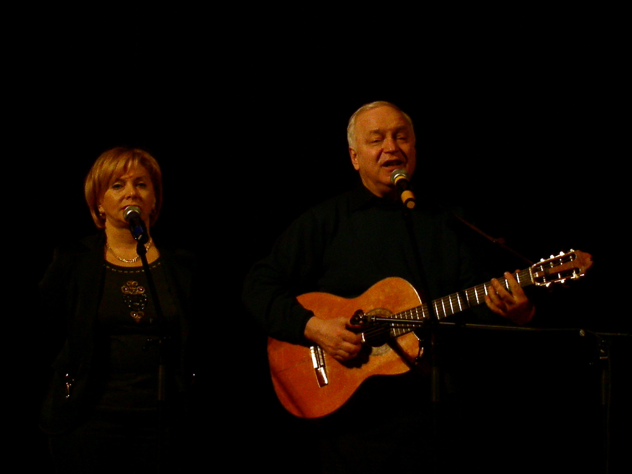 Tatyana and Sergey Nikitin, concert at Zhukovskiy House of Culture (DK)